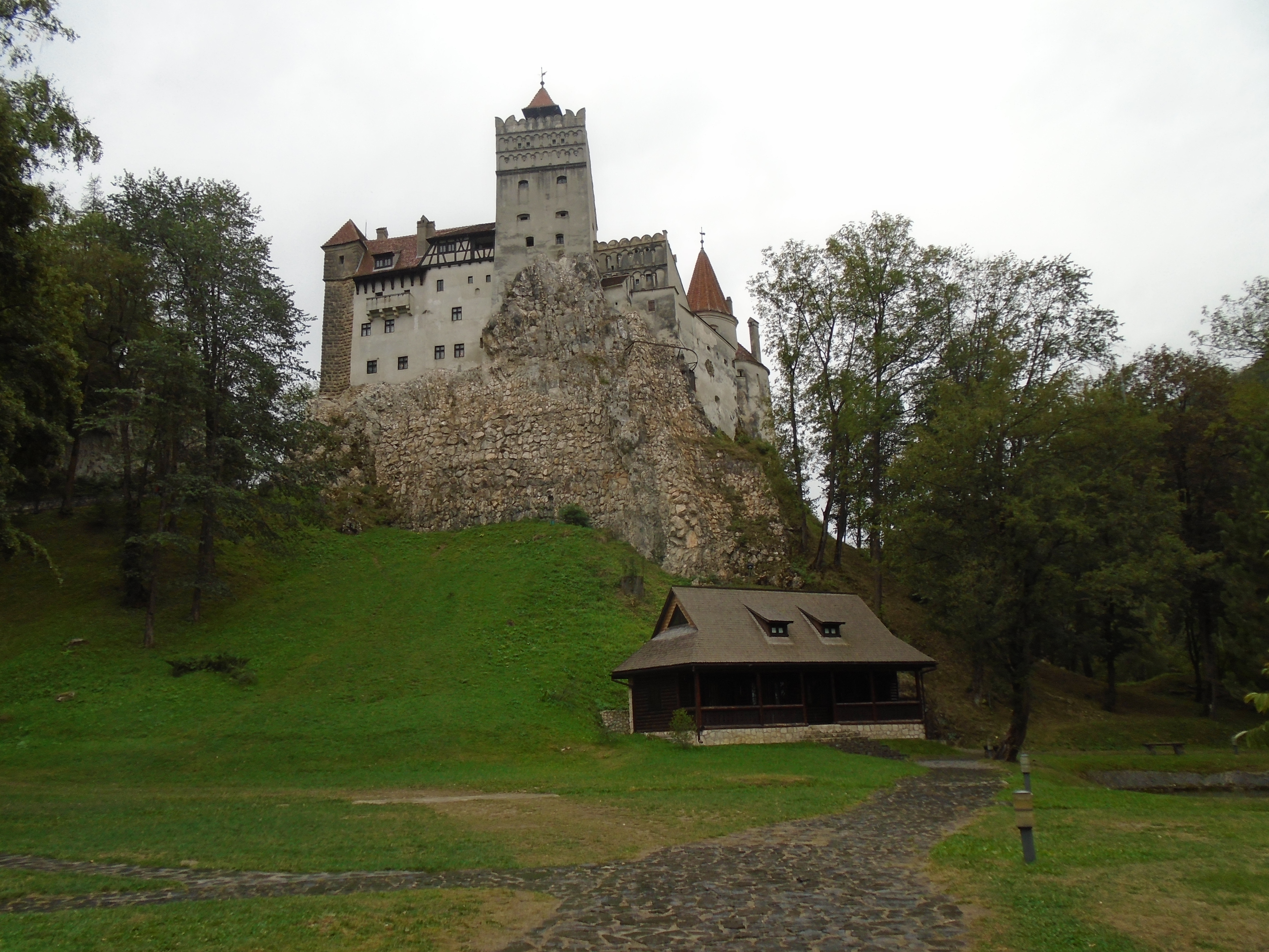 Bran Castle, situated near Bran and in the immediate vicinity of Braşov, is a national monument and landmark in Romania. former royal residence & alleged legend of Count Dracula inspiration